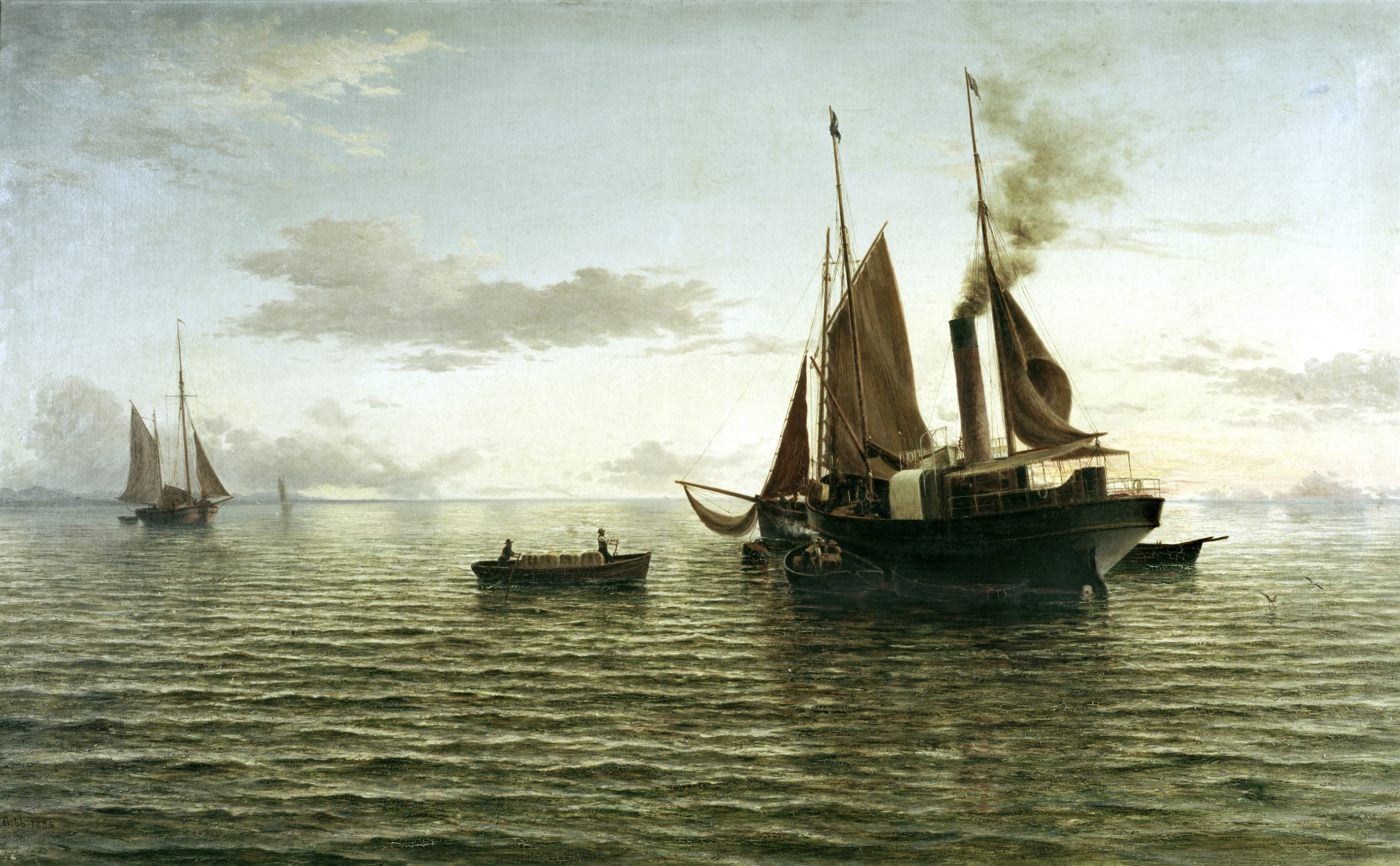 The wool season depicts the steamer Wakatu off Port Robinson in North Canterbury. John Gibb brought his usual meticulousness to the scene, paying particular attention to the subtle quality of light across the water. The painting was exhibited at the 1885 New Zealand Industrial Exhibition in Wellington. A steamship being loaded with wool bales was a common sight in the 1880s, when half of New Zealand’s exports by value were wool. Although the colony was looking to diversify its economy, it would be a long time before the wool season came to an end. Gibb worked for twenty-five years as an artist in his native Scotland before he migrated to New Zealand in 1876. He became this country’s most successful and prolific painter of maritime pictures – a specialisation which won him many commissions both here and in Australia.